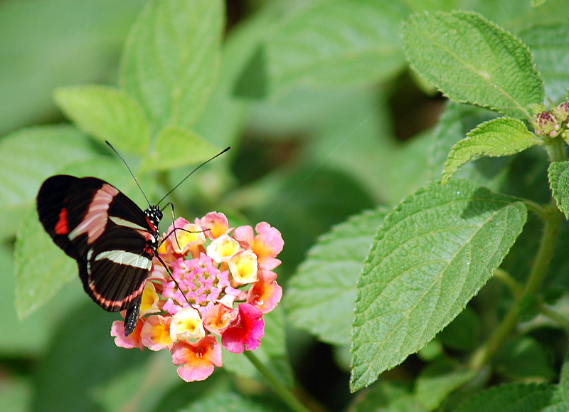 Jardim Botânico de São Paulo